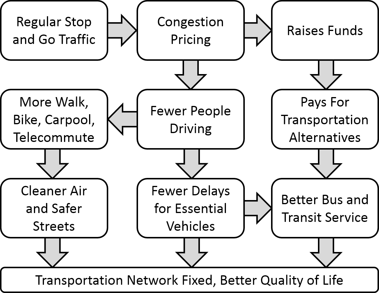 A flowchart describing how congestion pricing works for roads, for introducing the concept